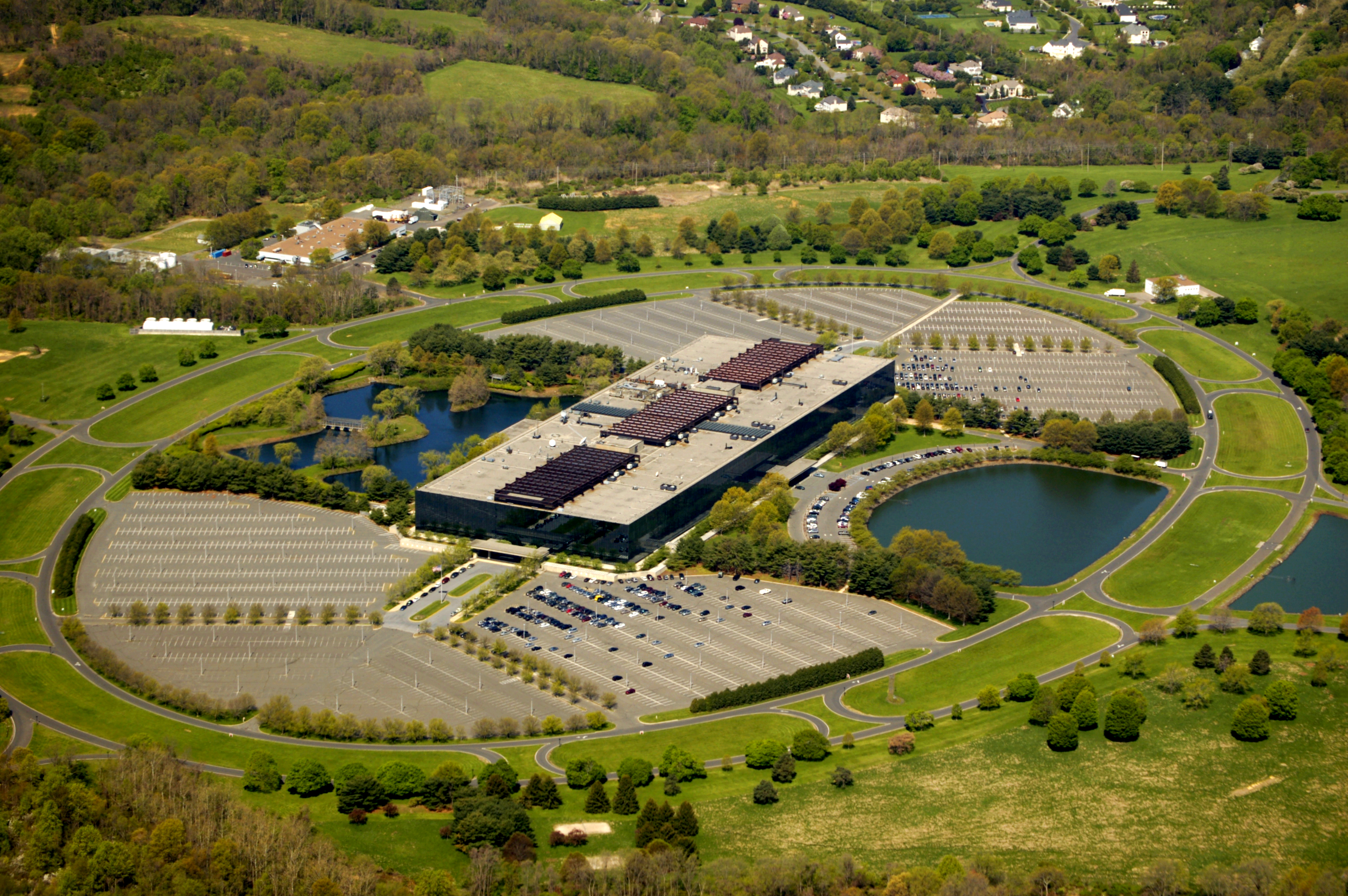 Aerial view of Bell Labs Holmdel Complex. The Bell Labs building in Holmdel is an architectural heirloom, designed by renowned architect Eero Saarinen, with a proud and distinguished history. For 44 years it was the home of an advanced research lab owned successively by Bell Telephone, AT&T, Lucent, and Alcatel.